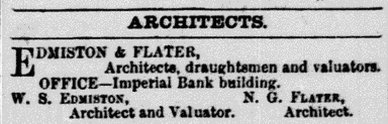 From The Edmonton Bulletin, August 21, 1893, Page 4